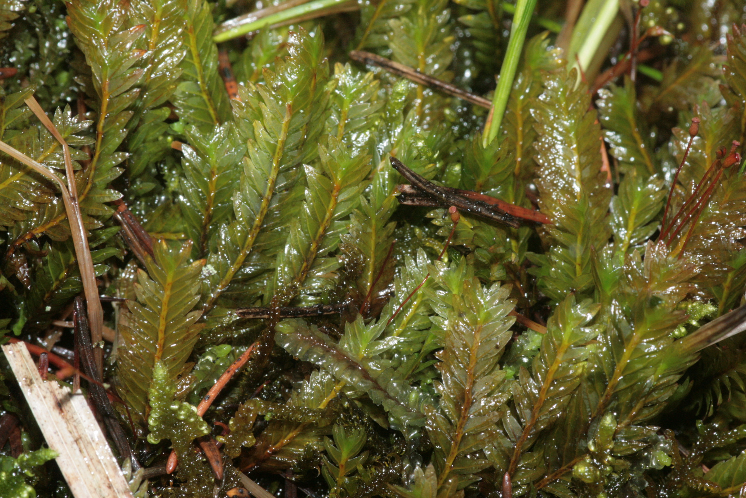 Fissidens adianthoides